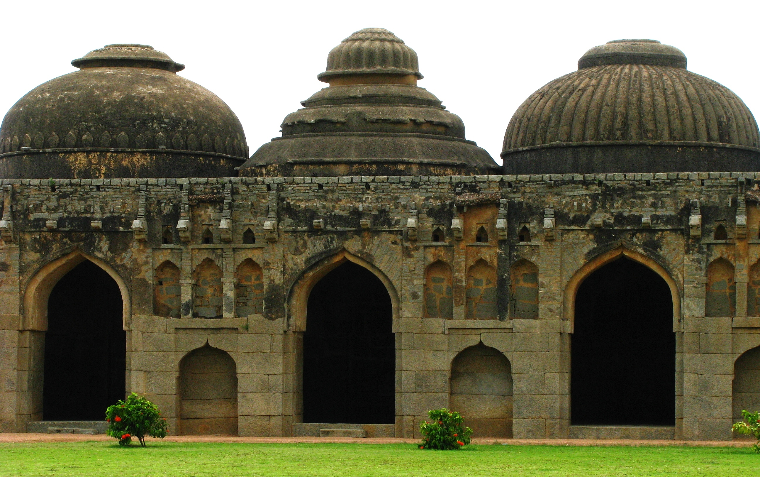 Domes of Muslim, Hindu and Jain style on top of the elephant stables at Hampi, India